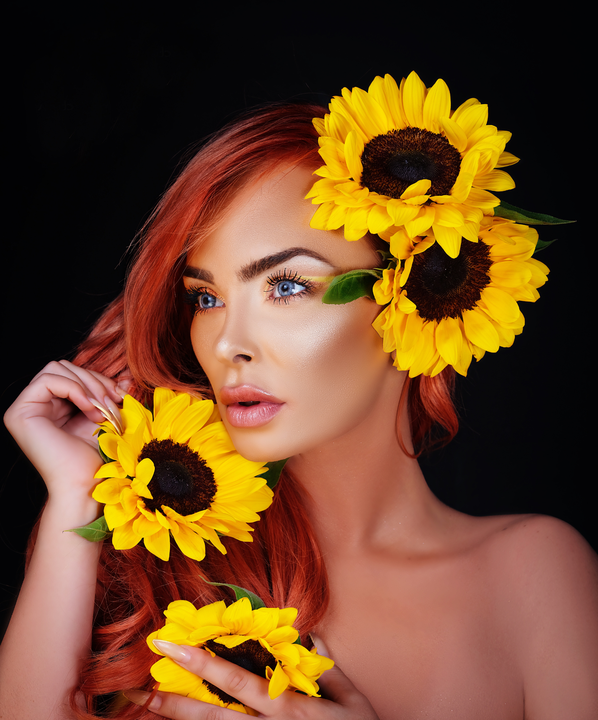 Emi Canaj Actress